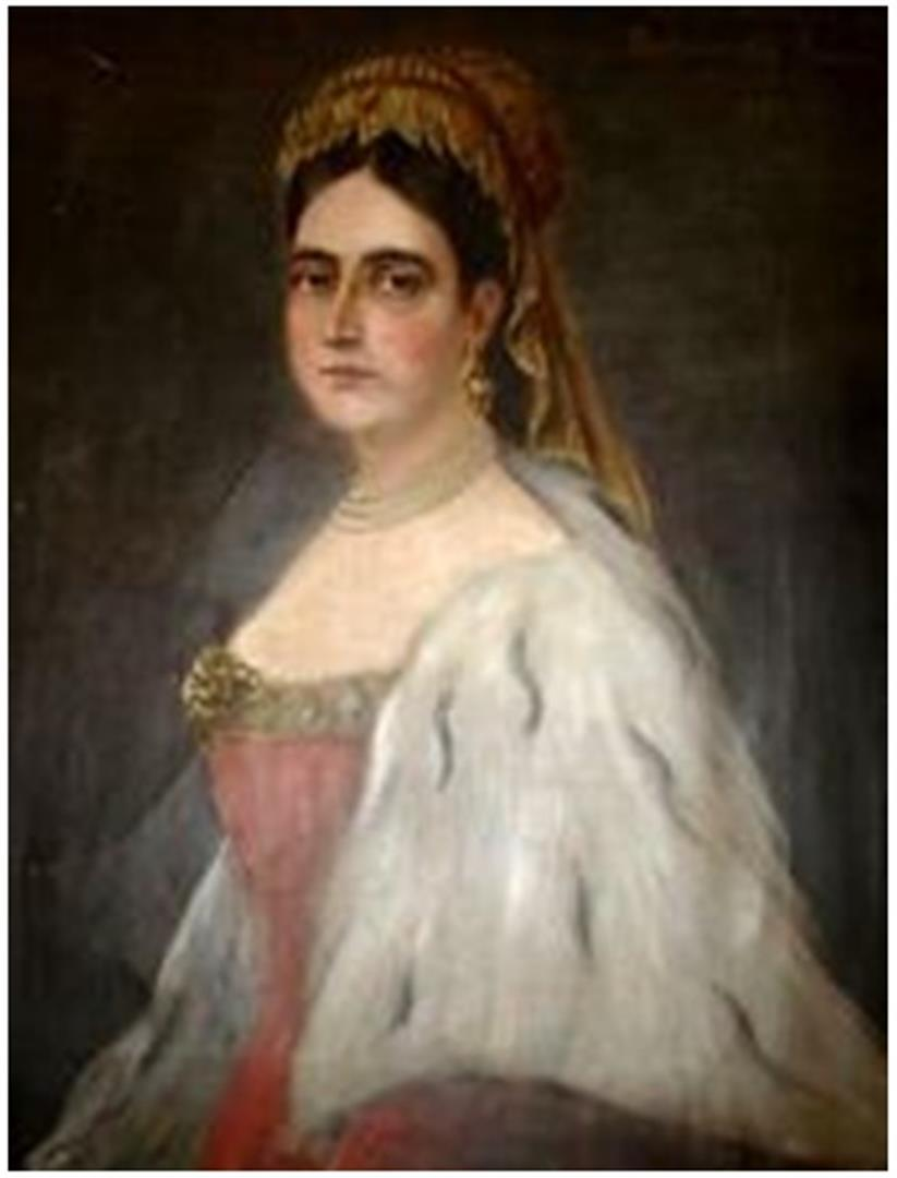 Portrait of Anna Bornemisza